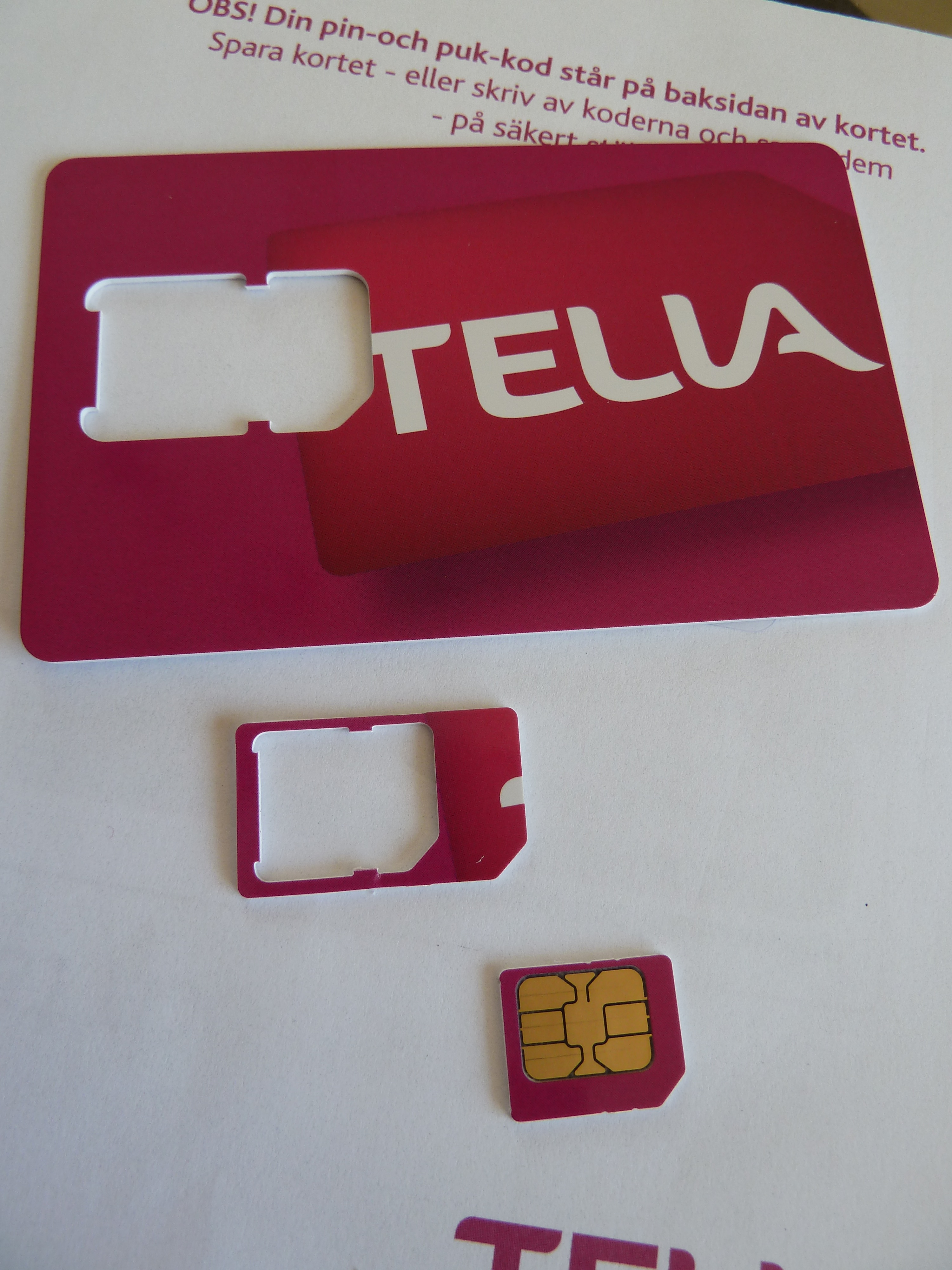 A micro-SIM from Telia in Sweden. Showing the brackets that the SIM came in